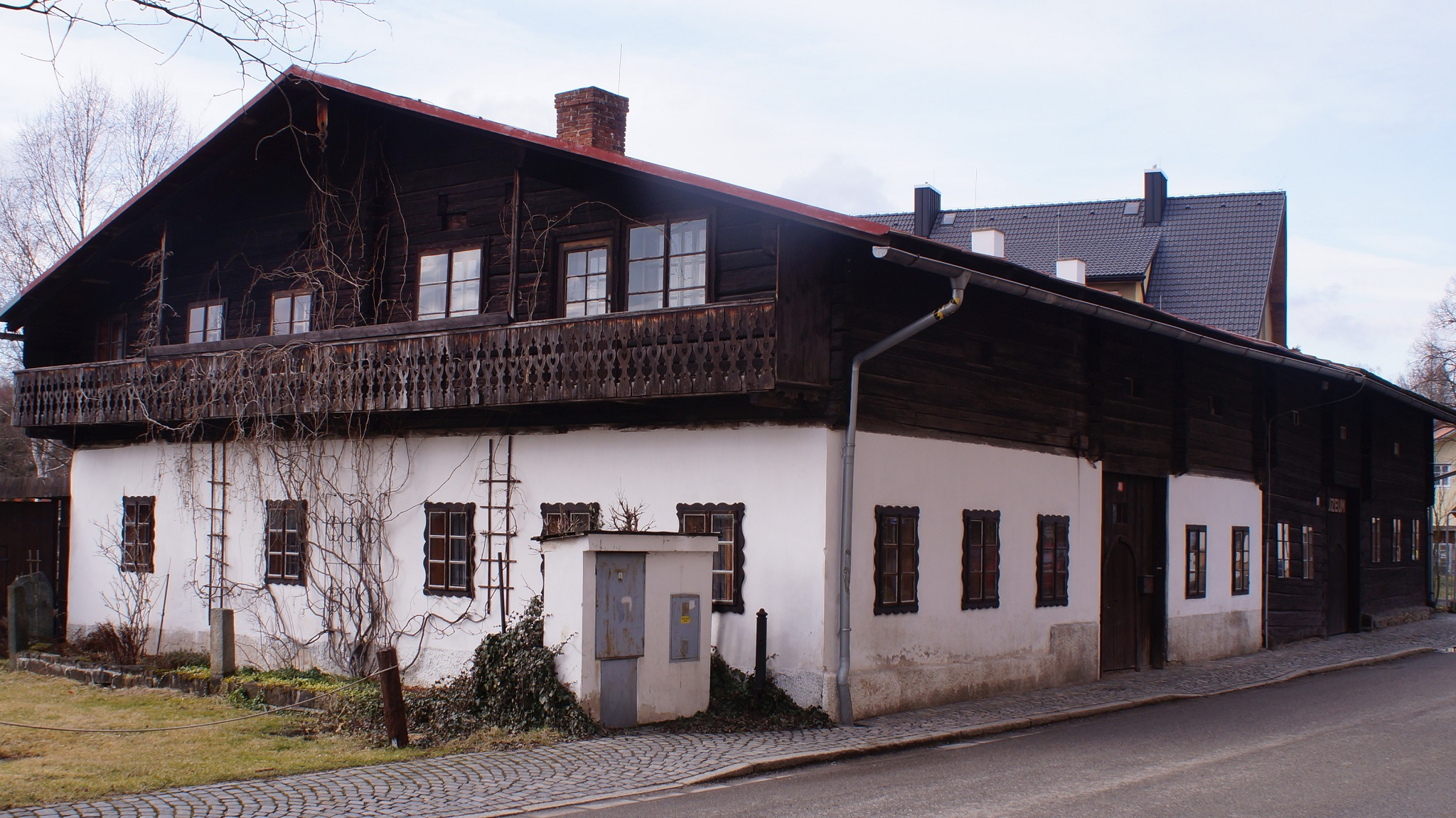 Volary museum in total, Česká čp. 70 - 71